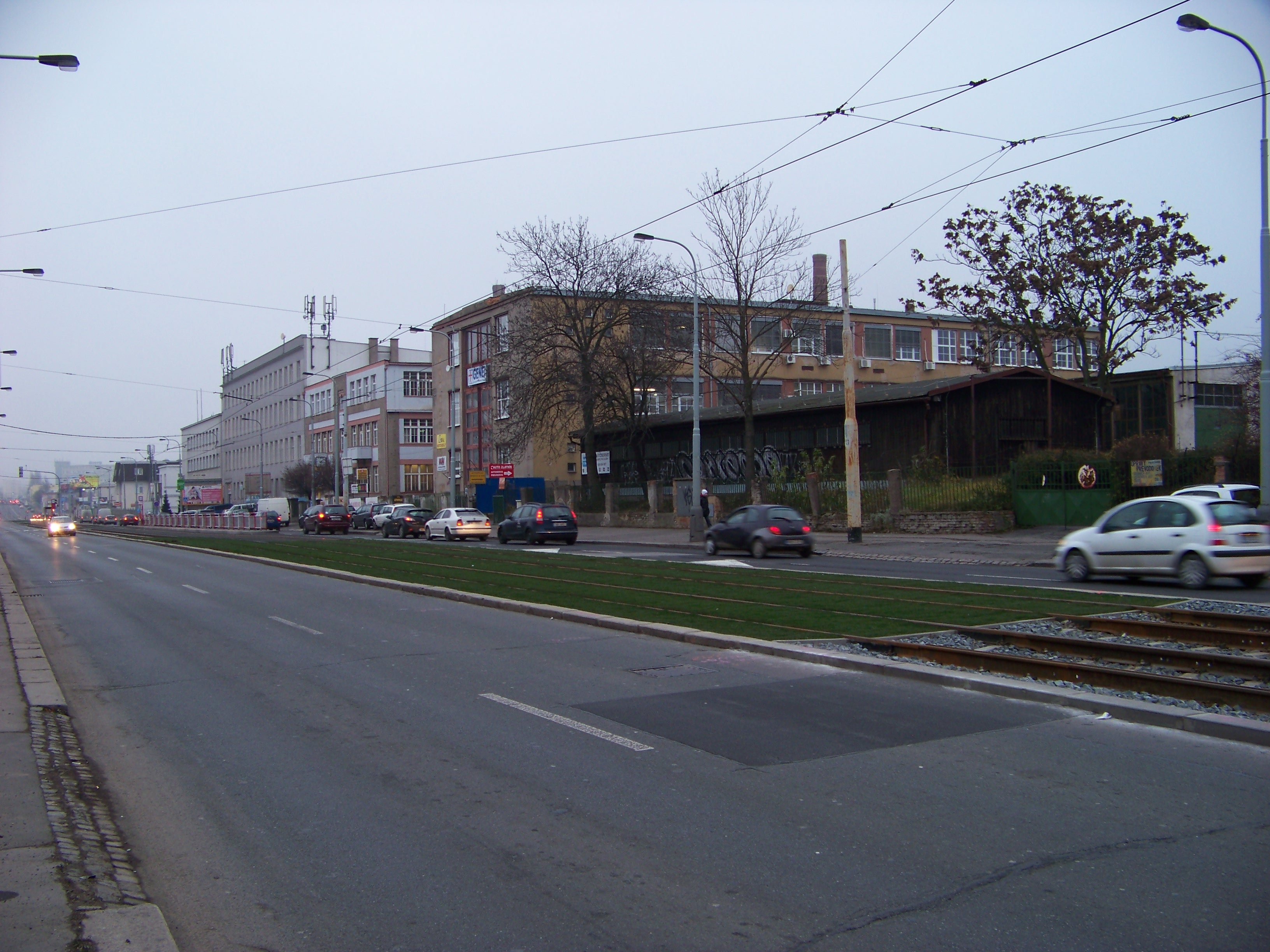 Prague-Vysočany, Czech Republic. Poděbradská 20–26. - OpenStreetMap (Info)